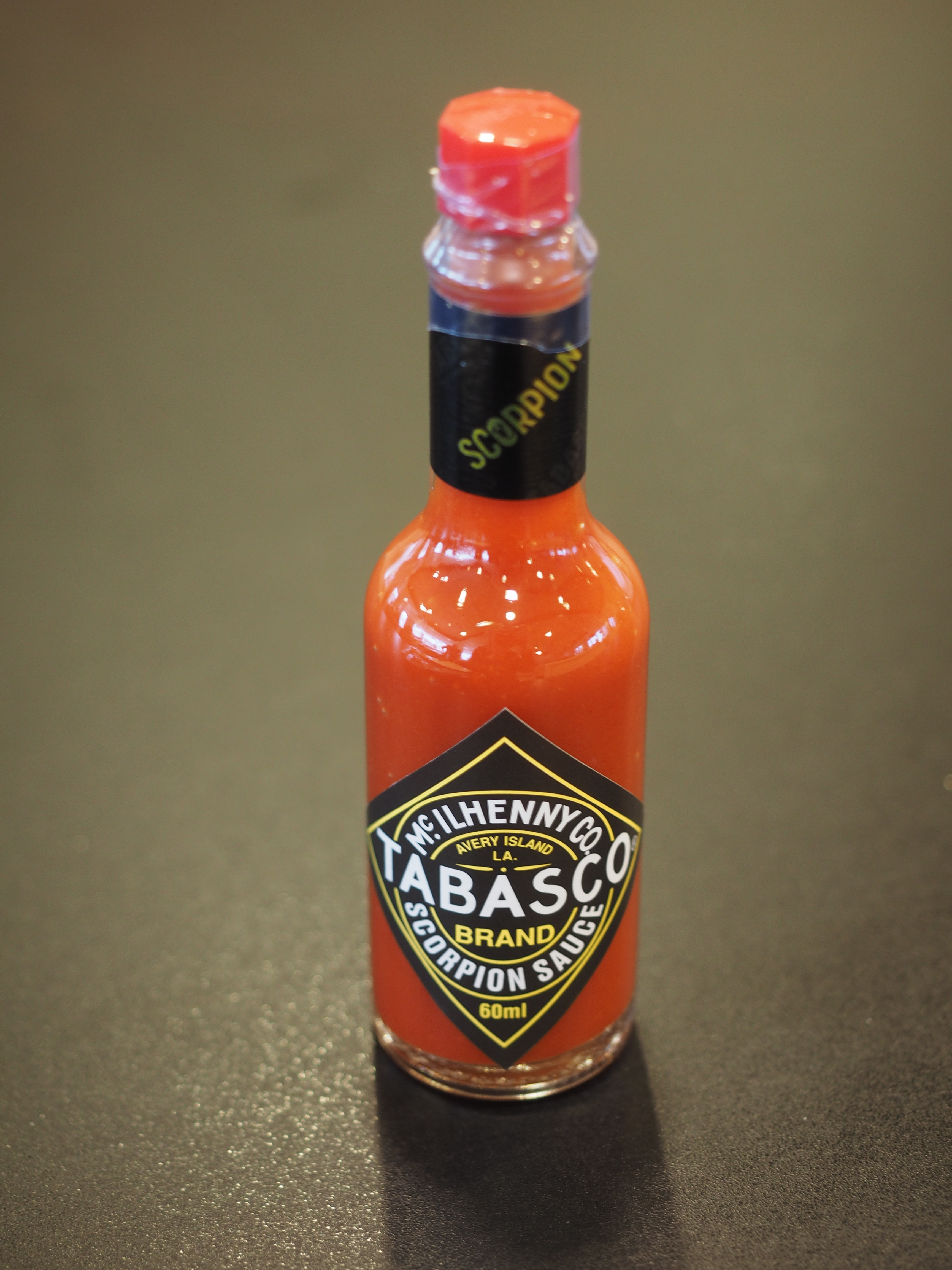 A bottle of "extra hot" Tabasco sauce containing Trinidad Scorpion chili pepper.